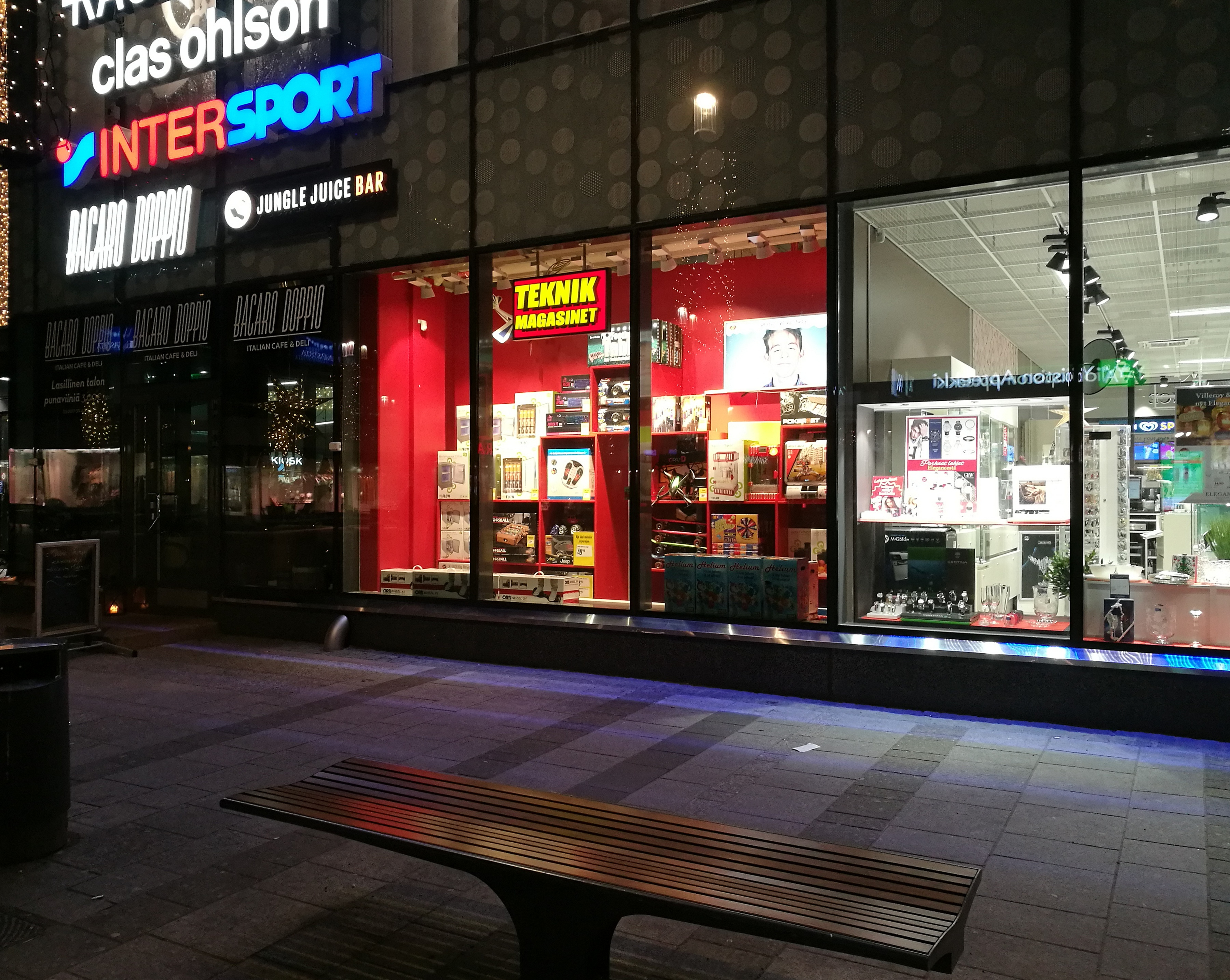 Teknikmagasinet shop in the Valkea shopping centre in Oulu.